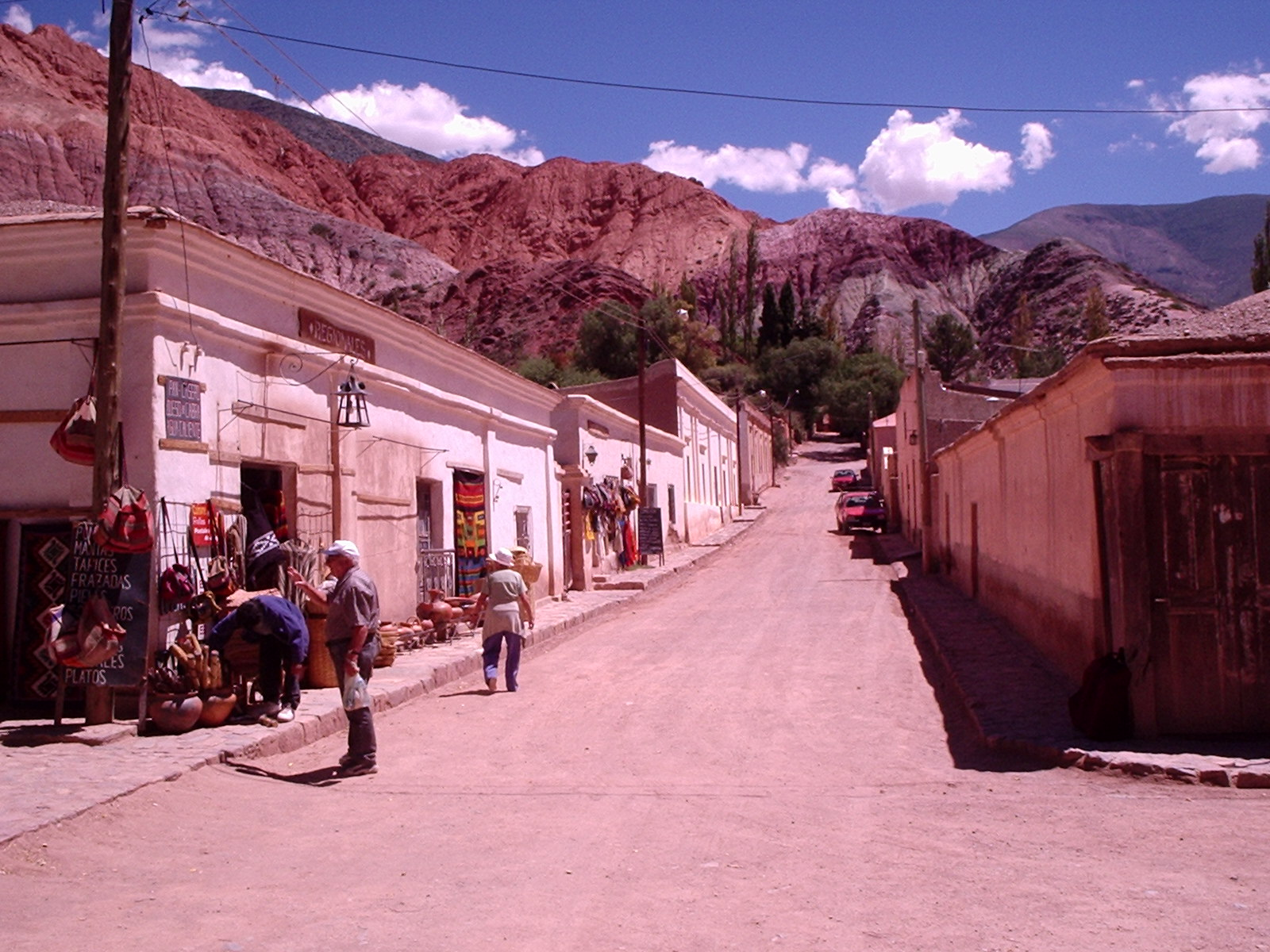 Street in the village of Purmamarca, Jujuy Province, Argentina